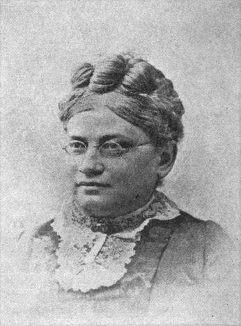 Mrs. Mary (Janes) Ingham, in 1896, then of Cleveland, Ohio